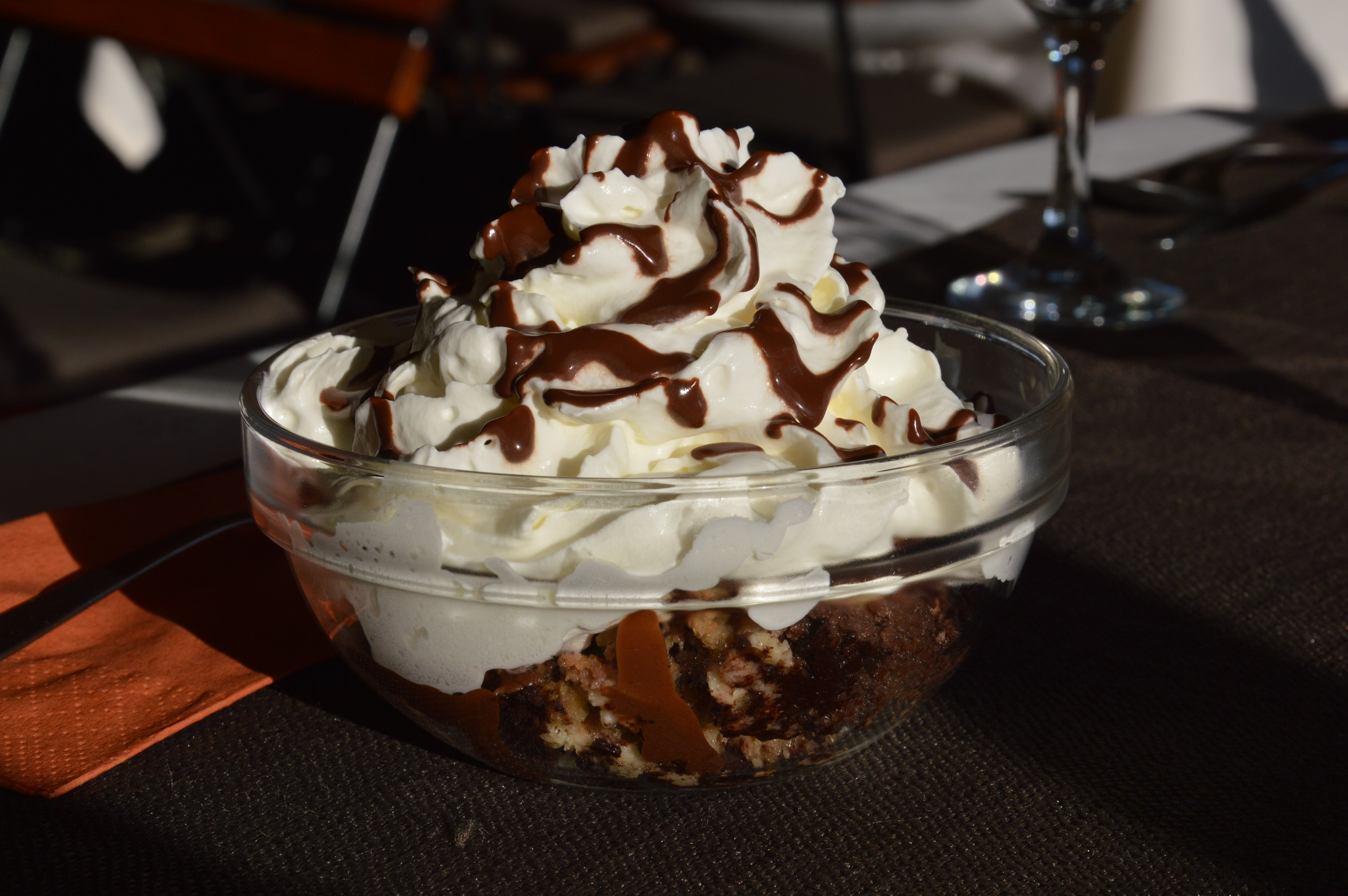 Somlói galuska as served at Fáy Présház Étterem on Somlyó-hegy in Fót, Hungary.